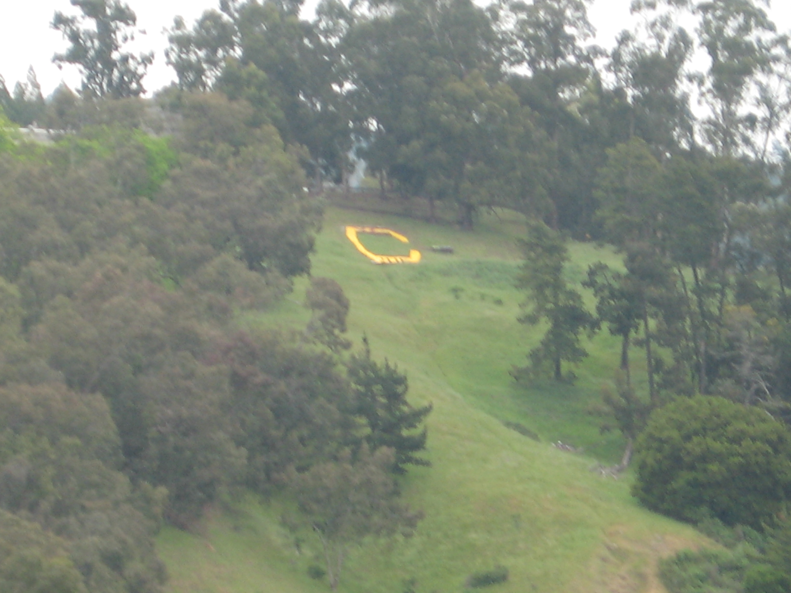 The Big "C" is a giant concrete block "C" built into the Berkeley Hills overlooking the University of California, Berkeley.